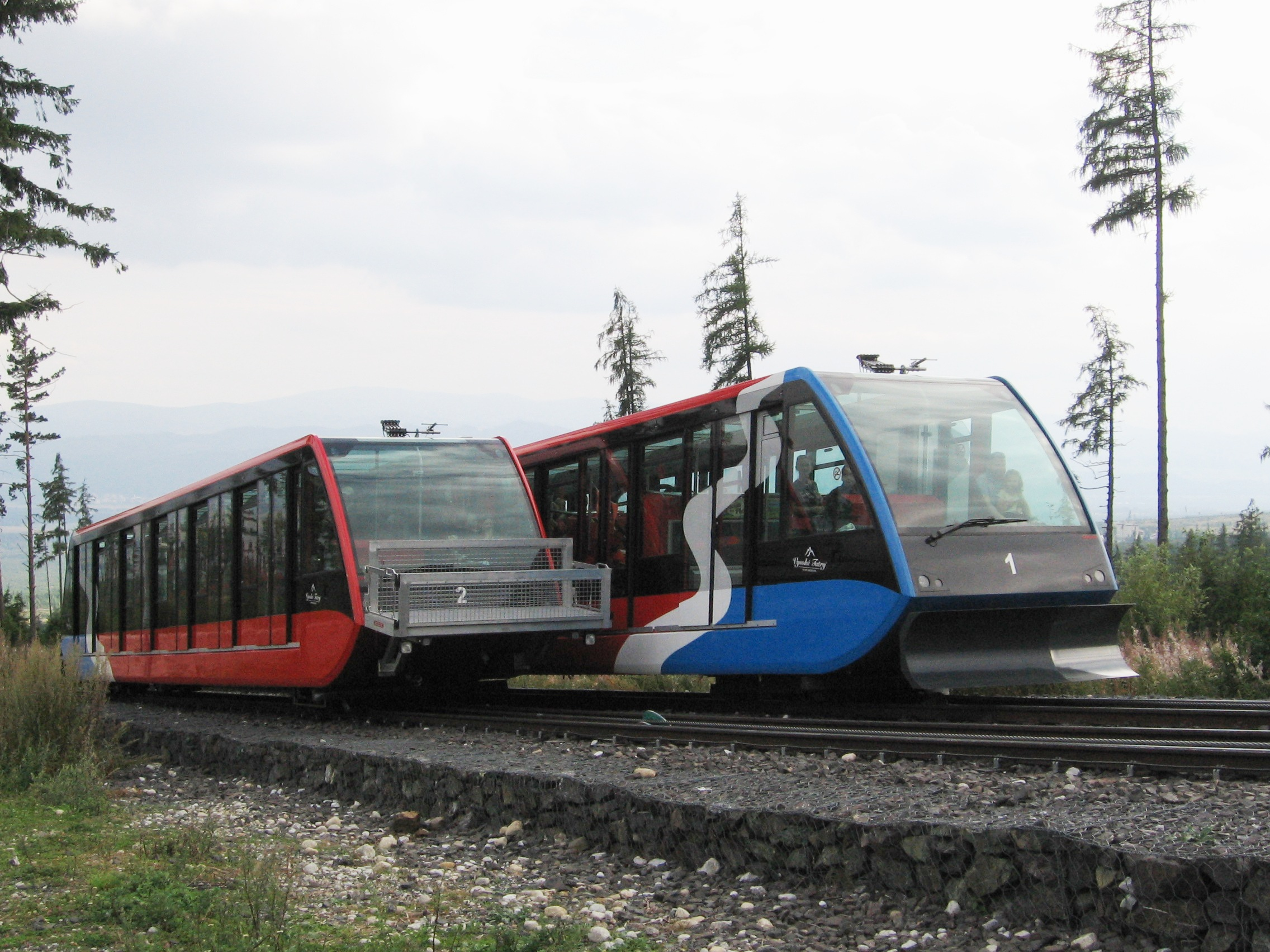 Turnover of Hrebienok funicular